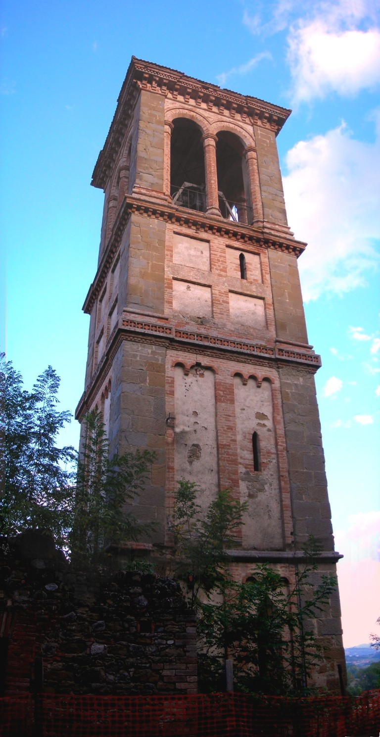 Belltower of Ponte Pattoli, Perugia, Ubria, Italy